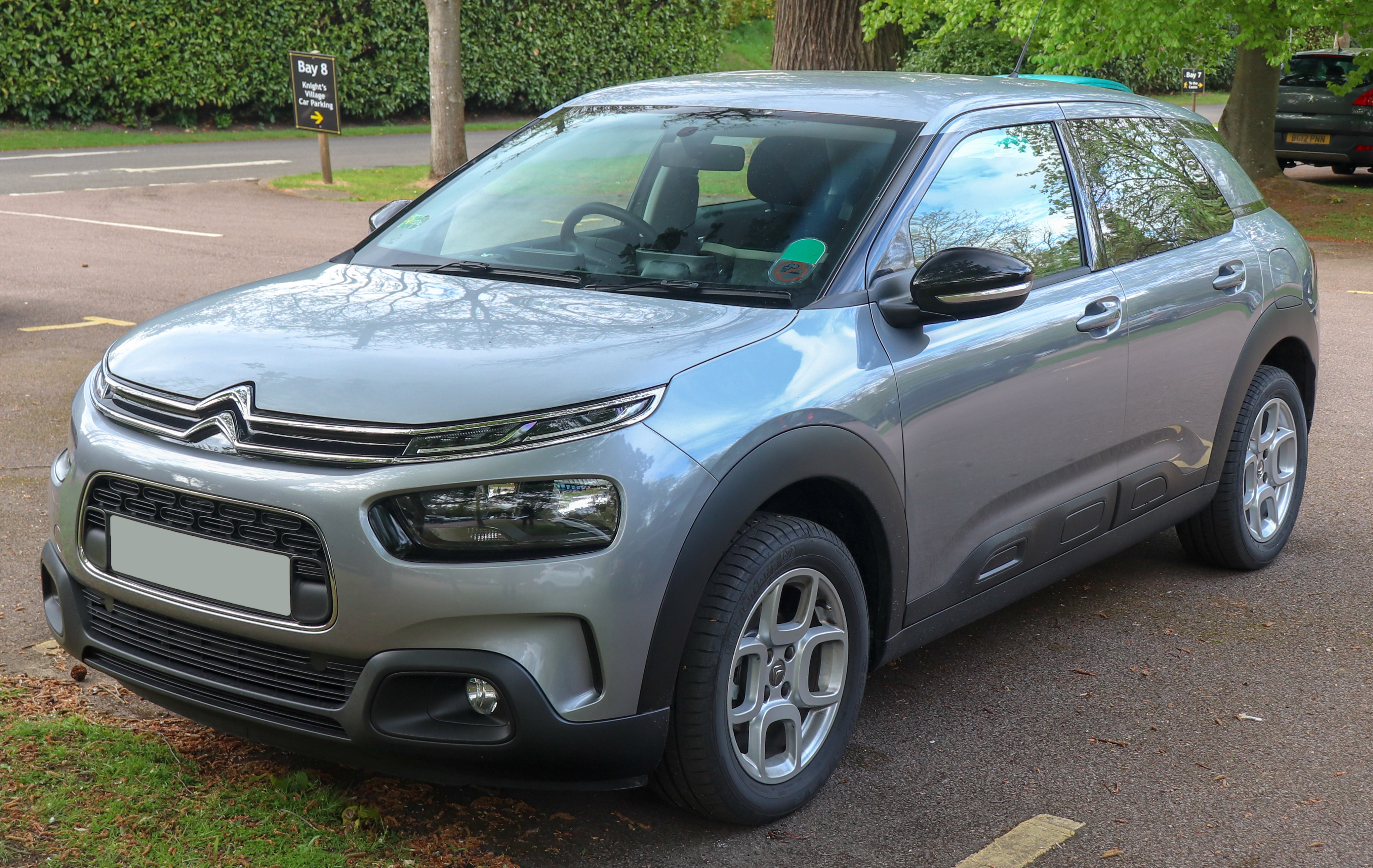 2019 Citroen C4 Cactus Feel Puretech S 1.2 Front Taken in Warwick